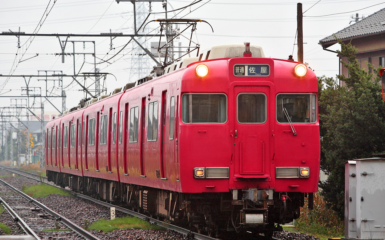 Meitetsu 6000 series EMU ( 6004F at Aotsuka Sta. )